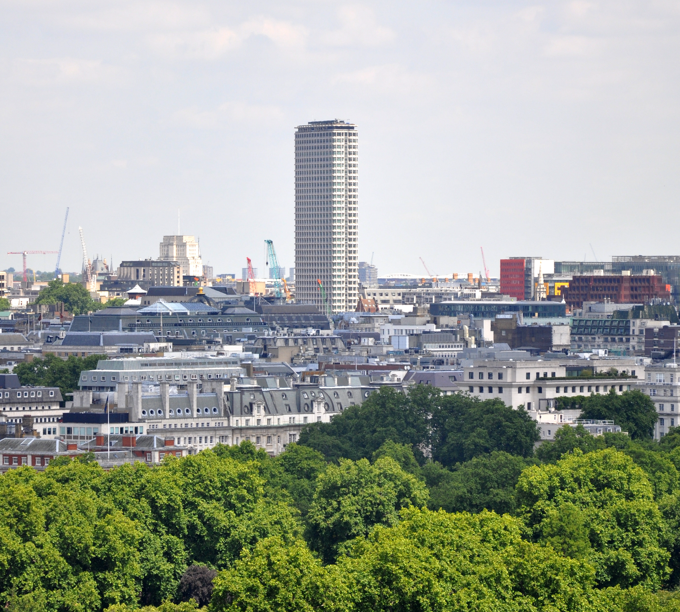 London, view from the tower of Westminster Cathedral towards Centre Point skyscraper